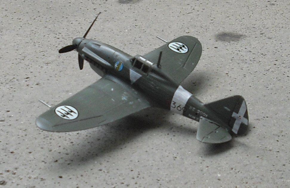 Model of a Reggiane Re.2001